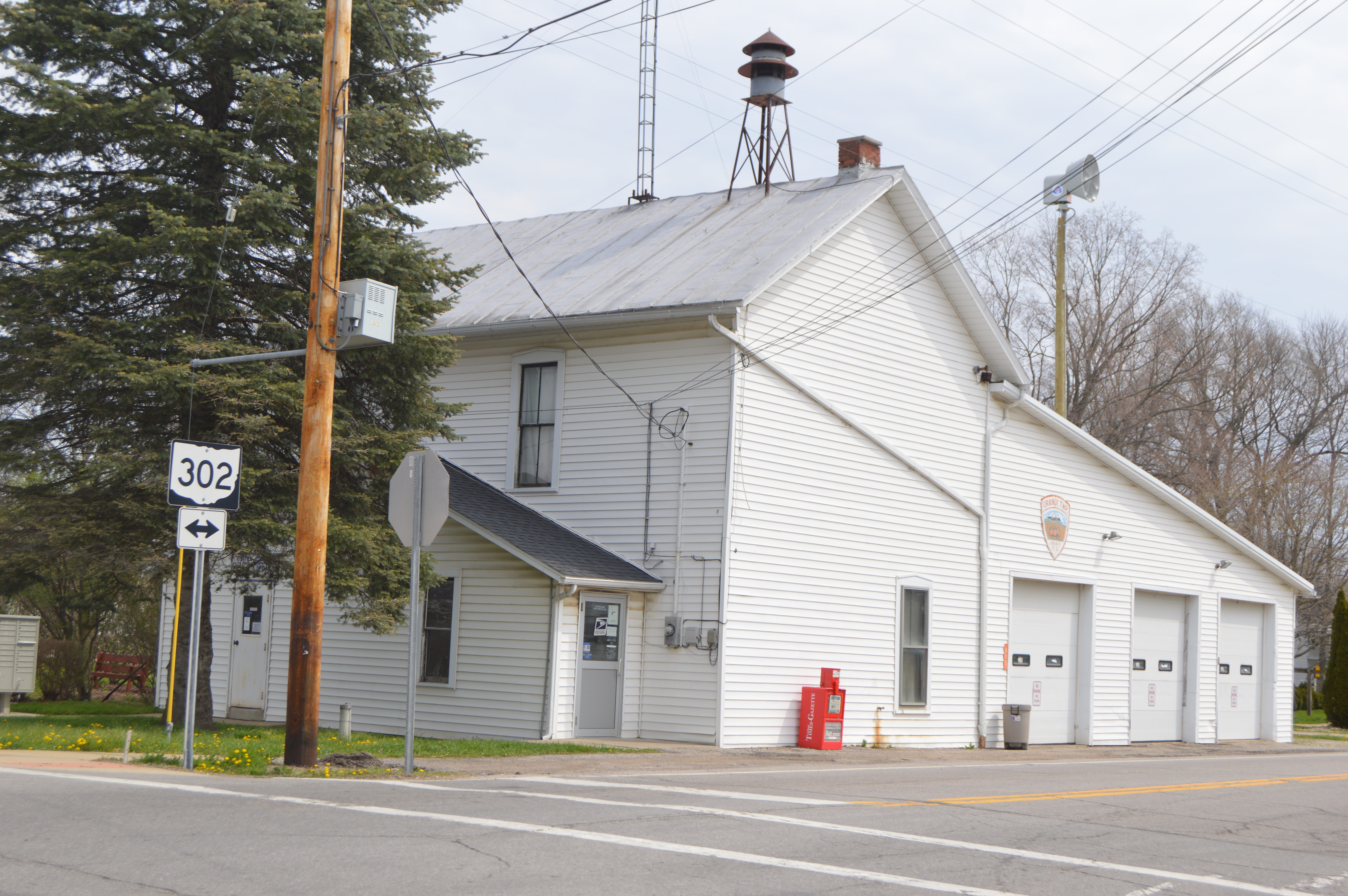 Front and western side of the combined post office and Orange Township fire station located at the junction of State Routes 58 and 302 in Nankin, Ohio, United States.